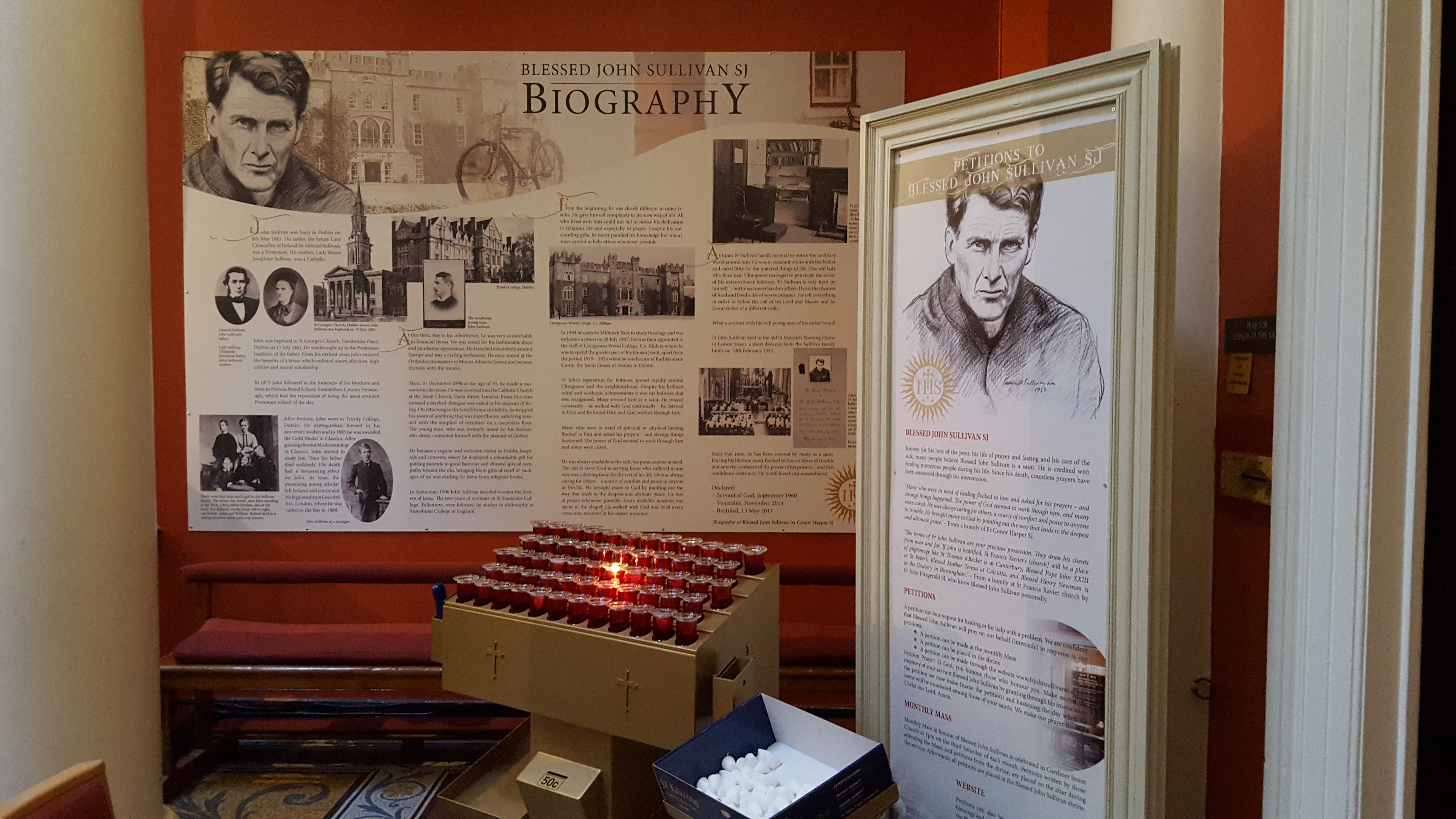 The shrine of Blessed John Sullivan SJ (1861 – 1933) teacher at Clongowes Wood College. He was beatified on account of his healing power.